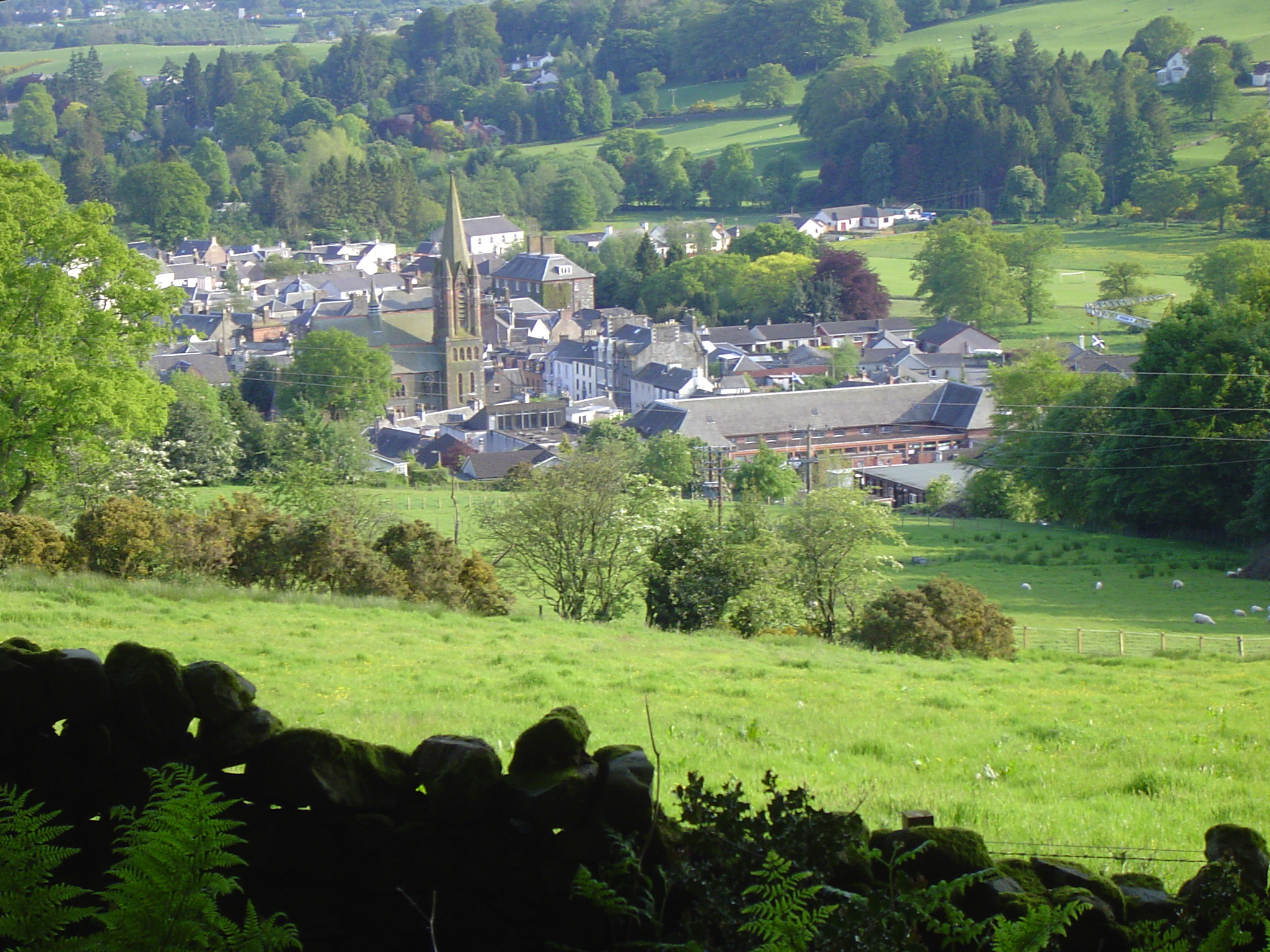 Image taken by Robert Matthews June 2005